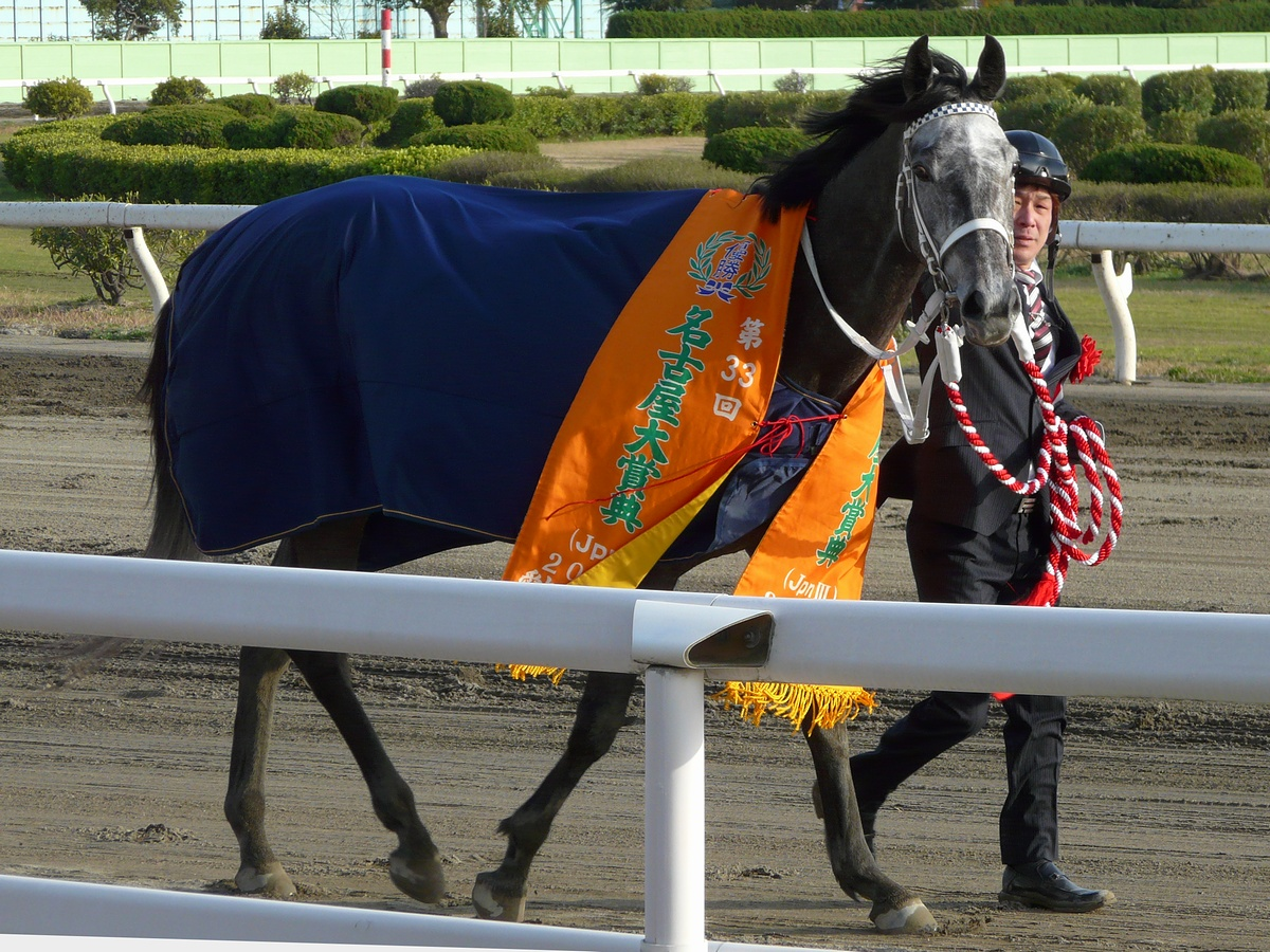 La-Verita20100317